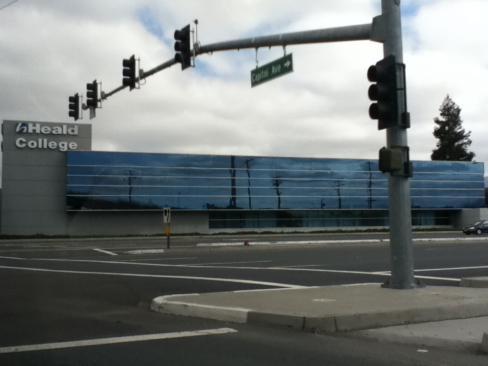 A shot of the Heald College building at 341 Great Mall Parkway, Milpitas, CA.